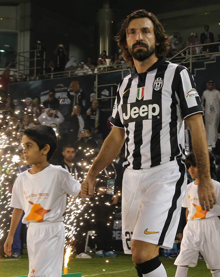 Save the Dream was proud to partner with Aspire Academy and the Qatar Football Association to spread the message of pure sport at the Italian Supercup finals between Juventus and SSC Napoli, held in Doha on December 22nd, 2014. Bianconeri's Andrea Pirlo.